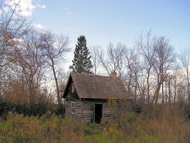 For anyone who has grown up in a rural area, there has always been that spook abandoned shack that nobody ever uses. Often, you ma have wondered "Who owns this place". In this case, the answer is: Me! The plan is to fix it up in the summer. Sadly, once we chink it, much of the wood won't be visible. So I took some pictures so I could remember it. It was an old pioneer homestead. There aren't that many left.